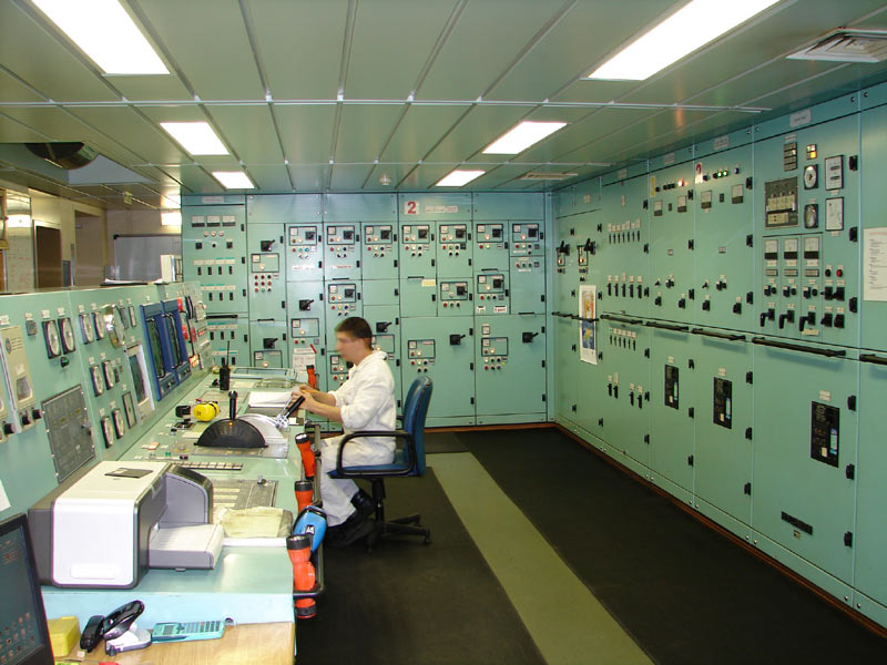 Engine control room of the oil tanker Algarve.